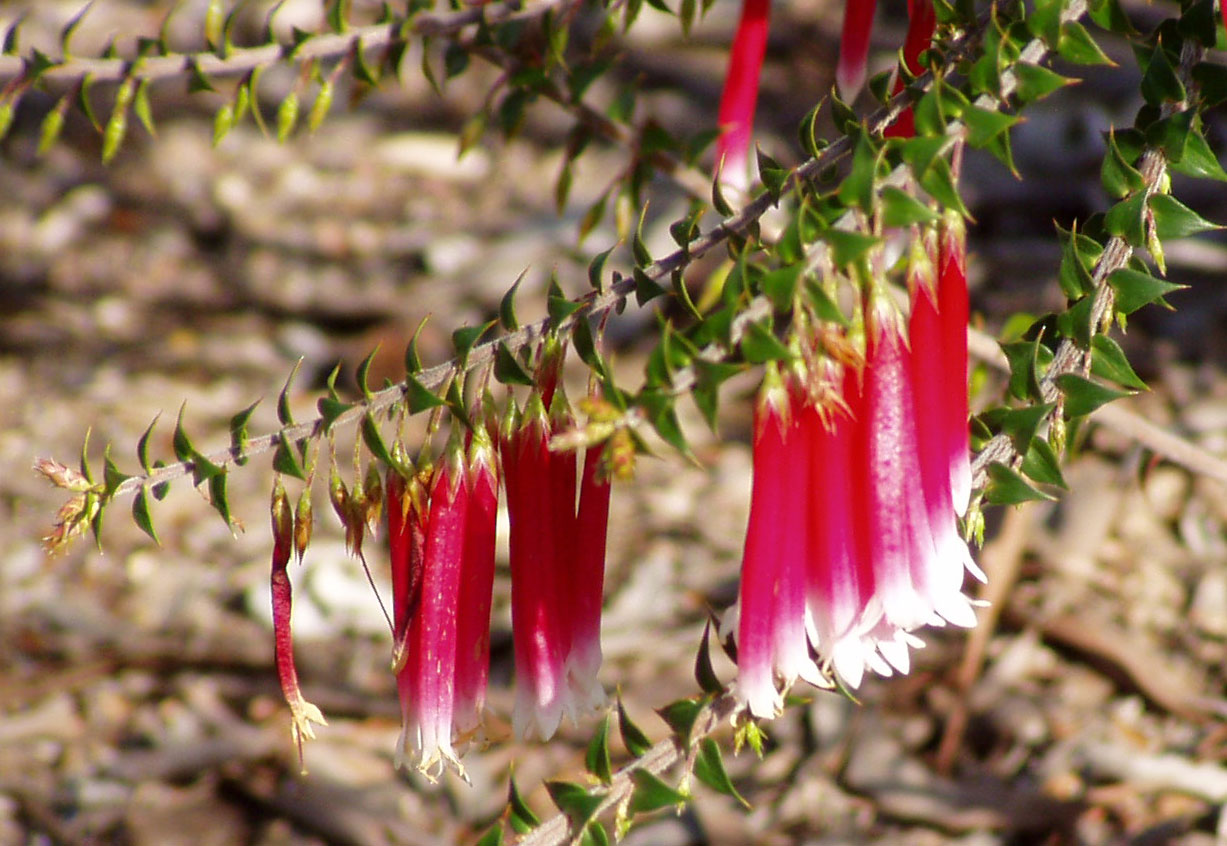 Description: Fuchsia Heath (Epacris longiflora) Location: Australian National Botanic Gardens, Canberra, Australian Capital Territory, Australia Date: 2005-09-21 Source: picture taken by Danielle Langlois Licence: Released under GFDL and Creative Commons licenses by the photographer